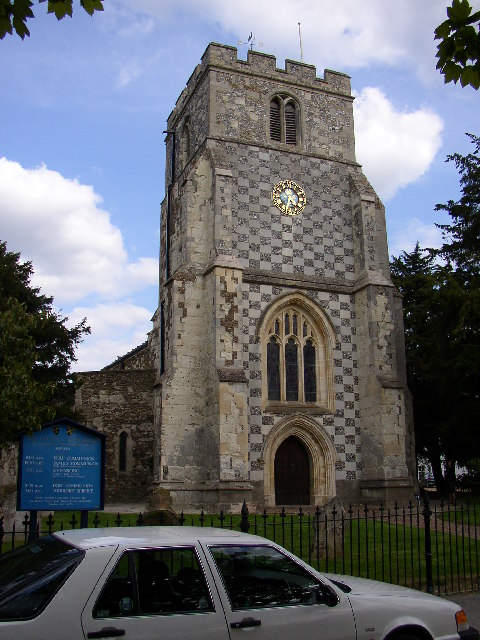 St Nicholas's Church, Barton in the Clay. The tower, in Perpendicular style, has an eye-catching chequered pattern of ashlar stone and cobbles.